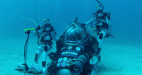 Left to right: NASA astronaut/NEEMO 16 commander Dottie Metcalf-Lindenburger, Andrew Abercromby (NASA Deputy Project Manager for the Multi-Mission Space Exploration Vehicle) and ESA astronaut/NEEMO 16 aquanaut Timothy Peake pose with a DeepWorker submersible during the NEEMO 16 undersea exploration mission in June 2012. NASA photo in public domain